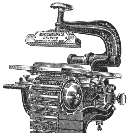 Earliest known advertisement for Addressograph 1896 model